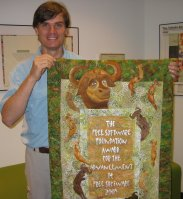 Andrew Tridgell reciving FSF award